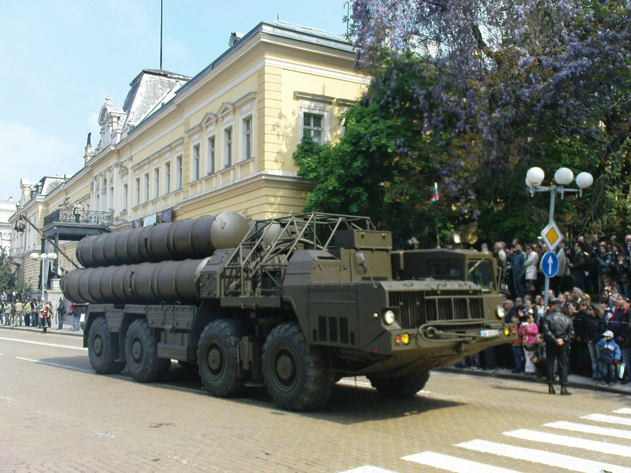 S-300 launcher on Army day parade in Sofia